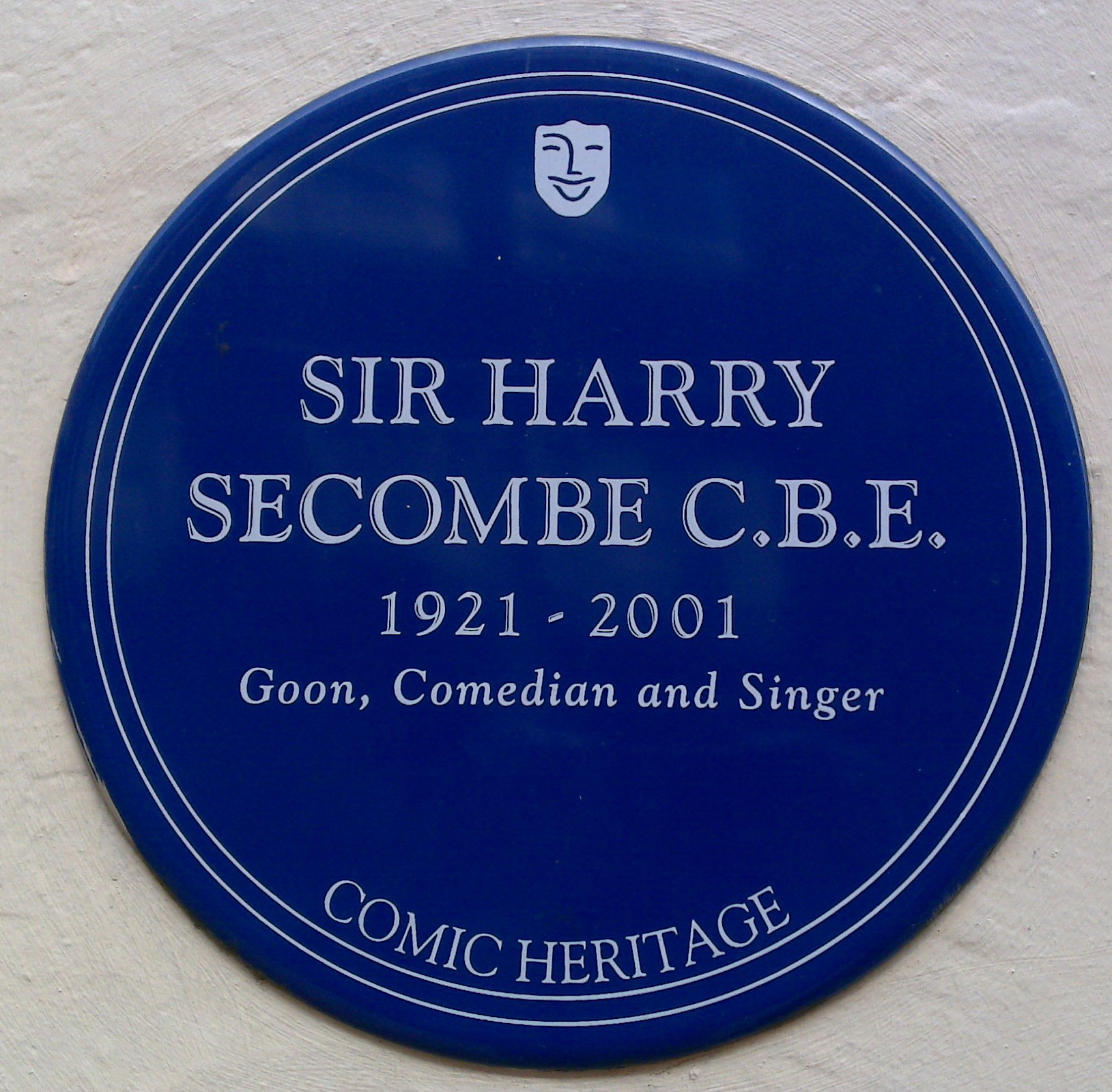 Sir Harry Secombe plaque